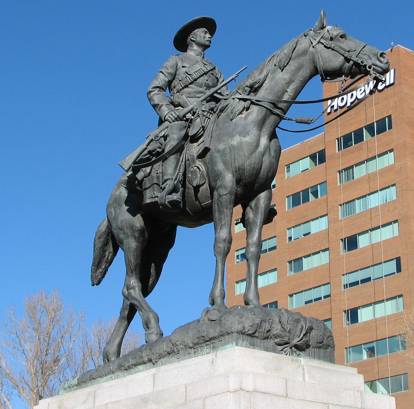 Statue of R.L. Boyle at Central Memorial Park, Calgary.